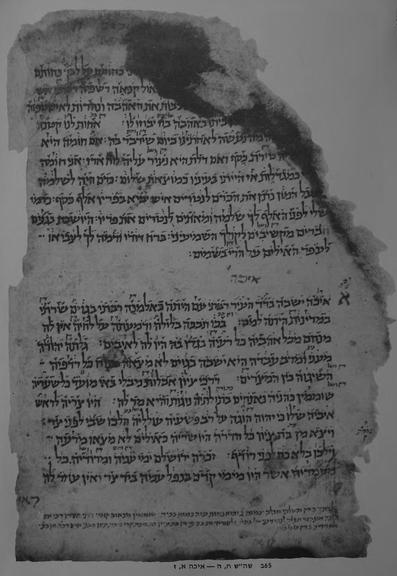 book of lamentations on the Babylonian-kethuvim-codex